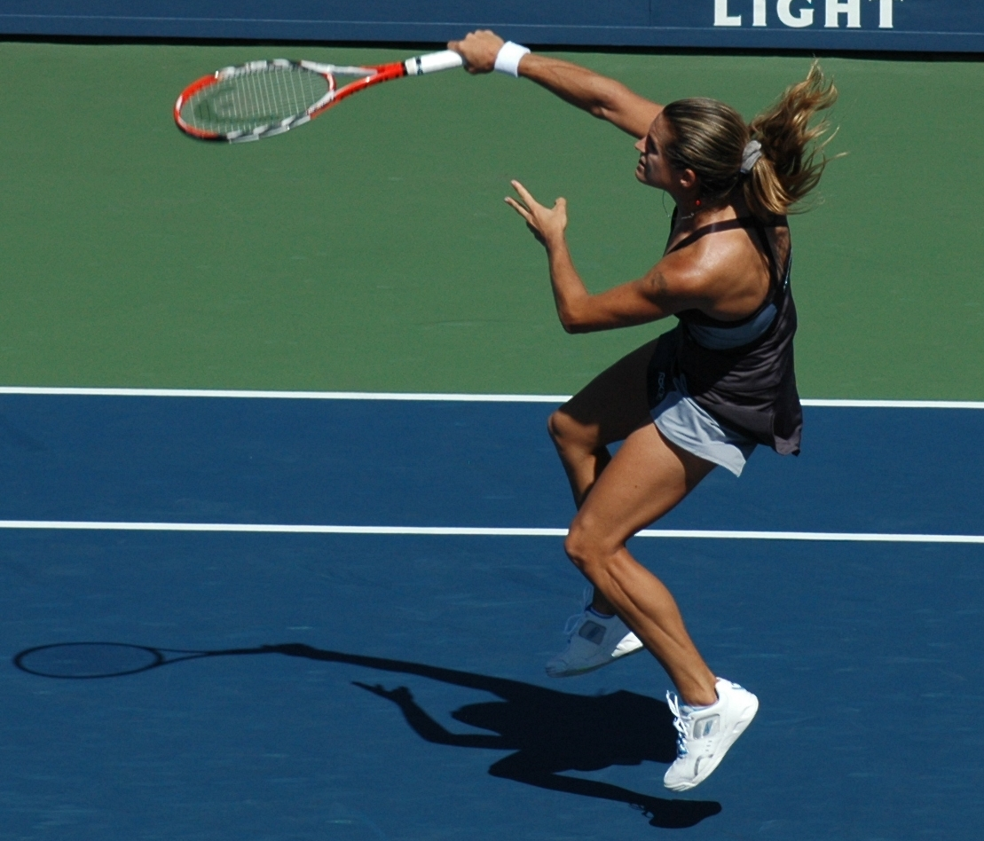 Amelie Mauresmo at the 2008 US Open